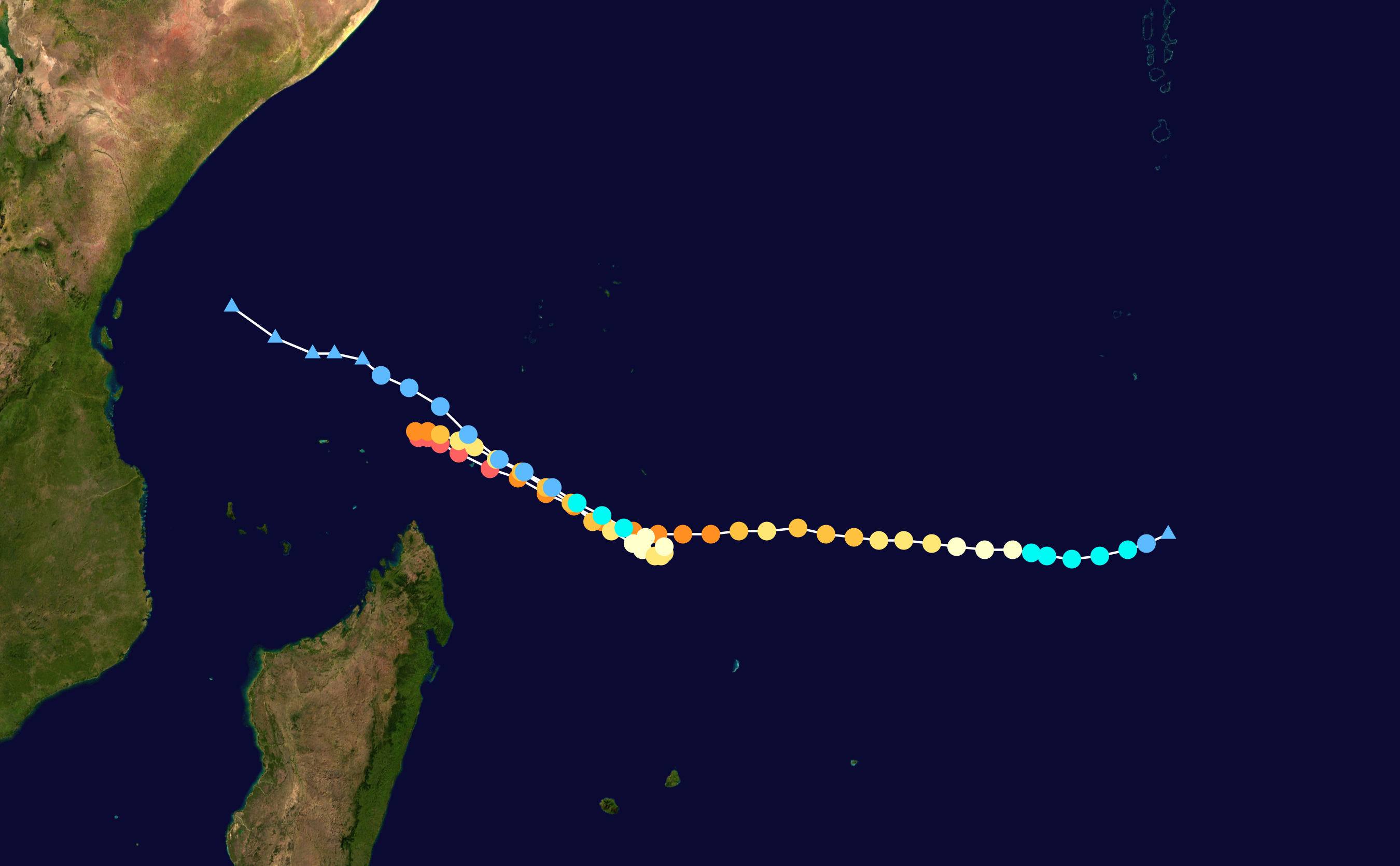 Track map of Very Intense Tropical Cyclone Fantala of the 2015-16 South-West Indian Ocean cyclone season. The points show the location of the storm at 6-hour intervals. The colour represents the storm's maximum sustained wind speeds as classified in the Saffir–Simpson scale (see below), and the shape of the data points represent the nature of the storm, according to the legend below. Saffir–Simpson scale Tropical depression≤38 mph≤62 km/h Category 3111–129 mph178–208 km/h Tropical storm39–73 mph63–118 km/h Category 4130–156 mph209–251 km/h Category 174–95 mph119–153 km/h Category 5≥157 mph≥252 km/h Category 296–110 mph154–177 km/h Unknown Storm type Tropical cyclone Subtropical cyclone Extratropical cyclone / Remnant low / Tropical disturbance / Monsoon depression